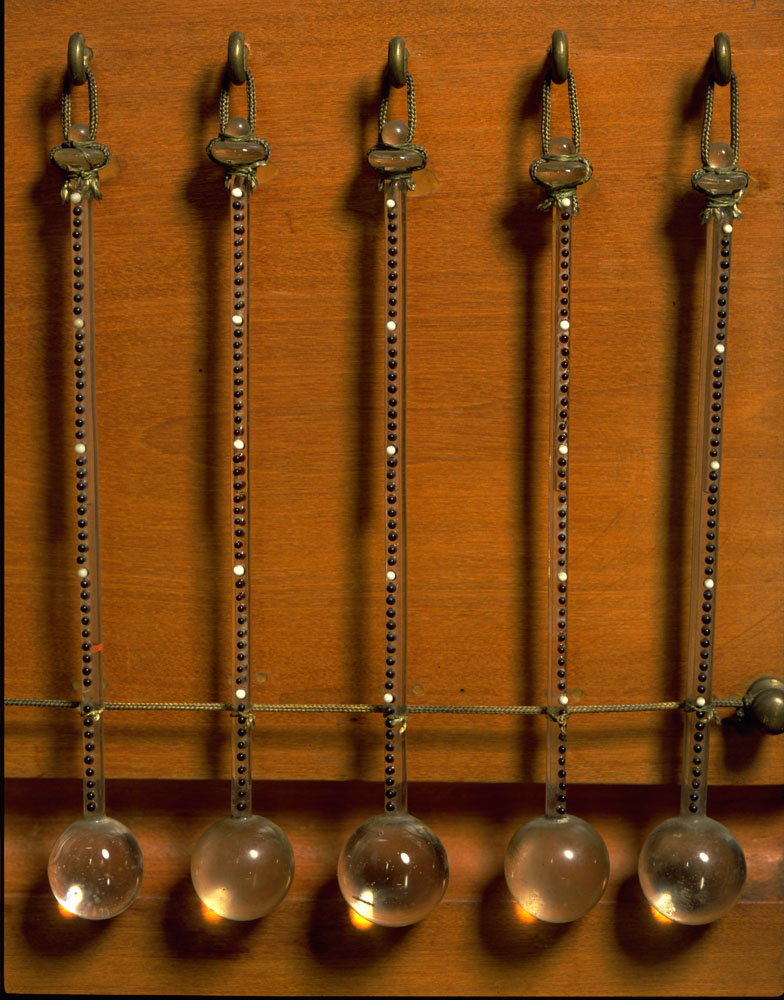 AuthorFerdinand II de' Medici [attr.]Description